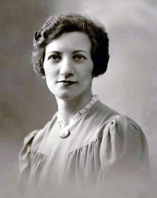 Lea Roback - feminist, communist and trade unionist.